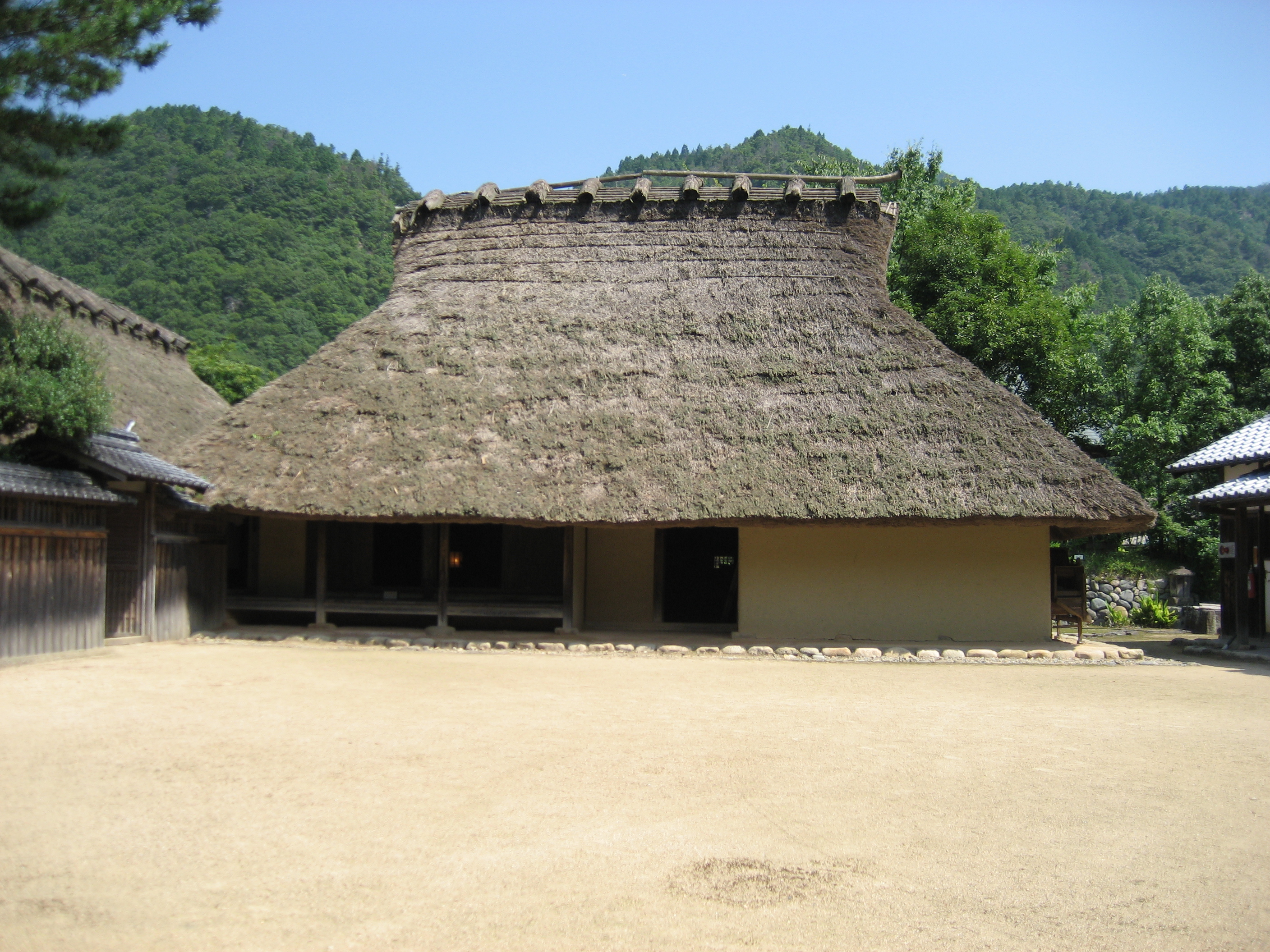 箱木家住宅。taken by Azuncha.